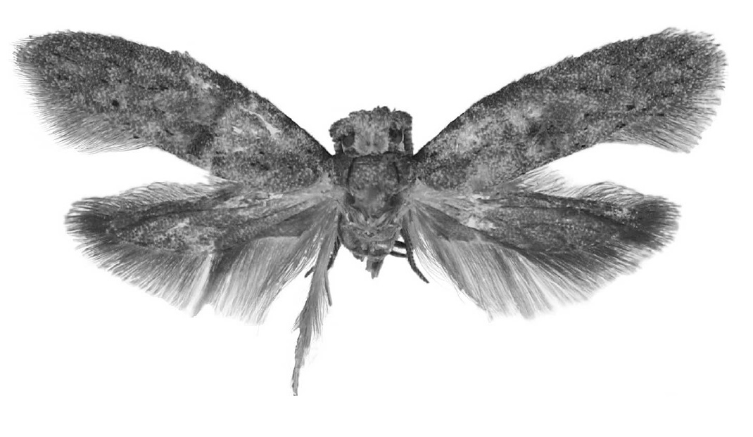 Adult Wockia chewbacca, holotype.